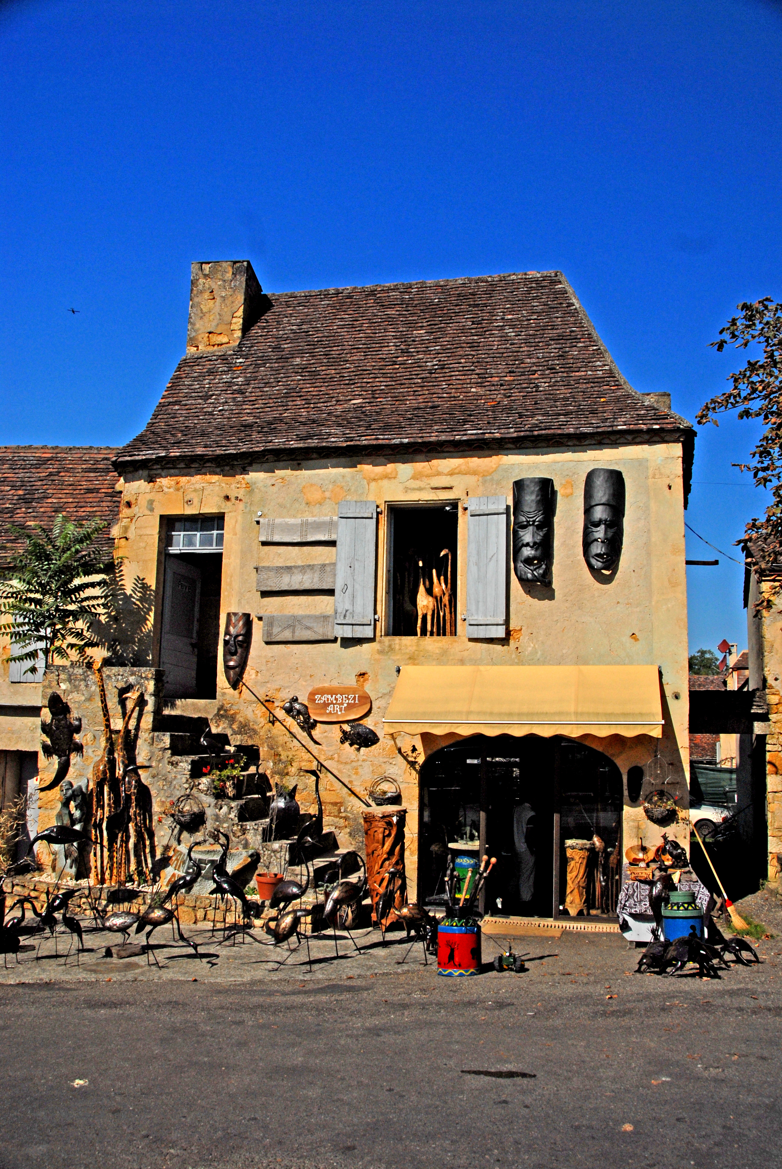 Domme, shops at the Place de la Rode